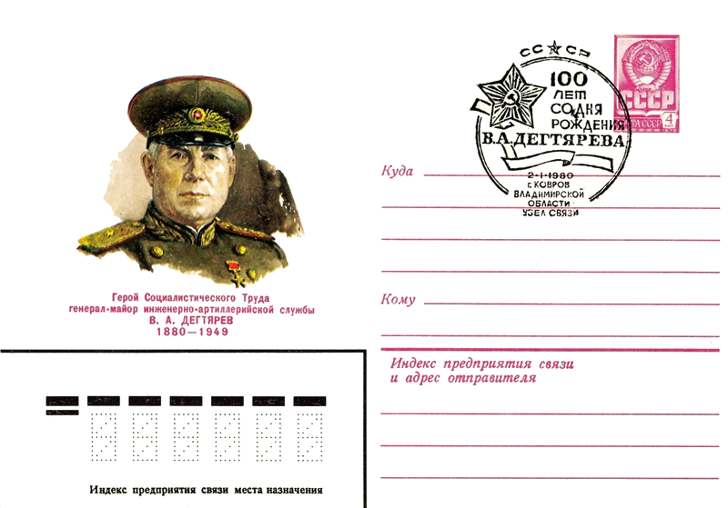 Special extincted postal envelope at the 100-years annivesary of Vasily Degtyarev.